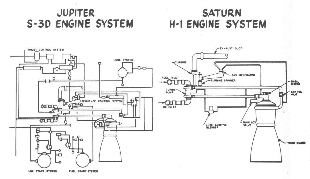 This chart shows the dramatic simplification of the S-3D engine, via the unillustrated X-1, to the Saturn I's H-1. Among the changes are the elimination of the lubrication system and start fuel tanks, replacement of the electrically control valves, greatly simplified thrust control, and the use of a solid fuel "turbine spinner" to spin the turbo pumps.